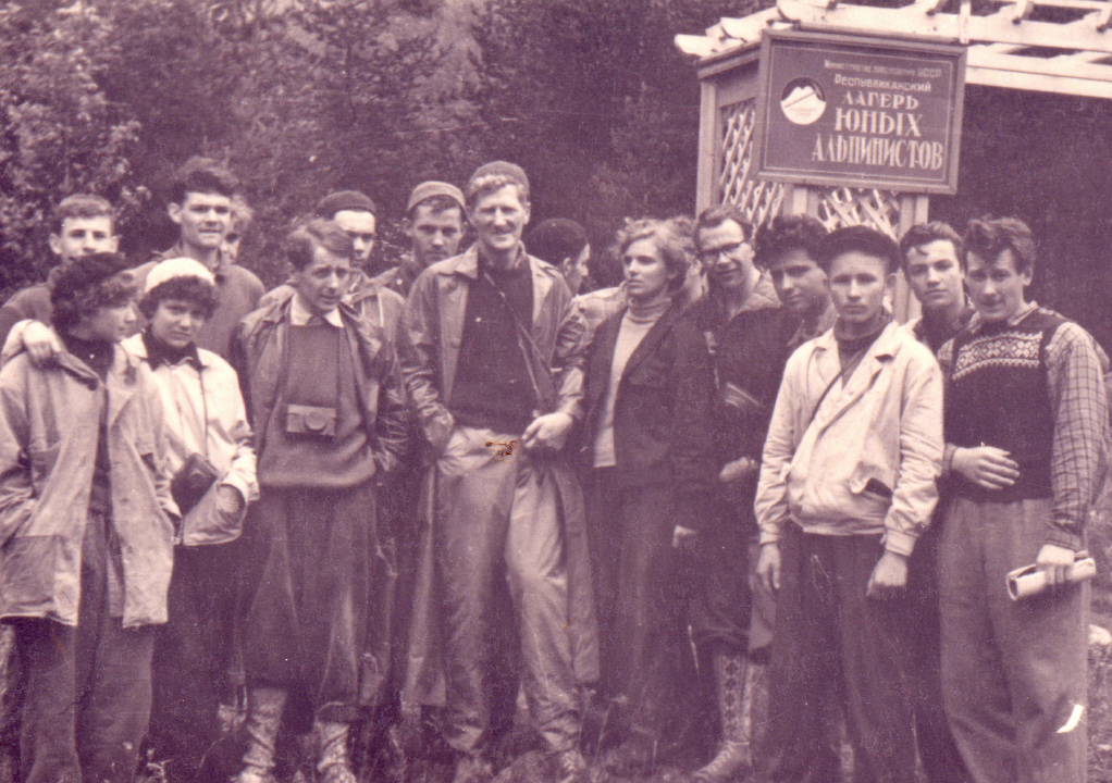 Henry Cecil John Hunt during his stay in the Soviet Union. (Caucasus, 1958)